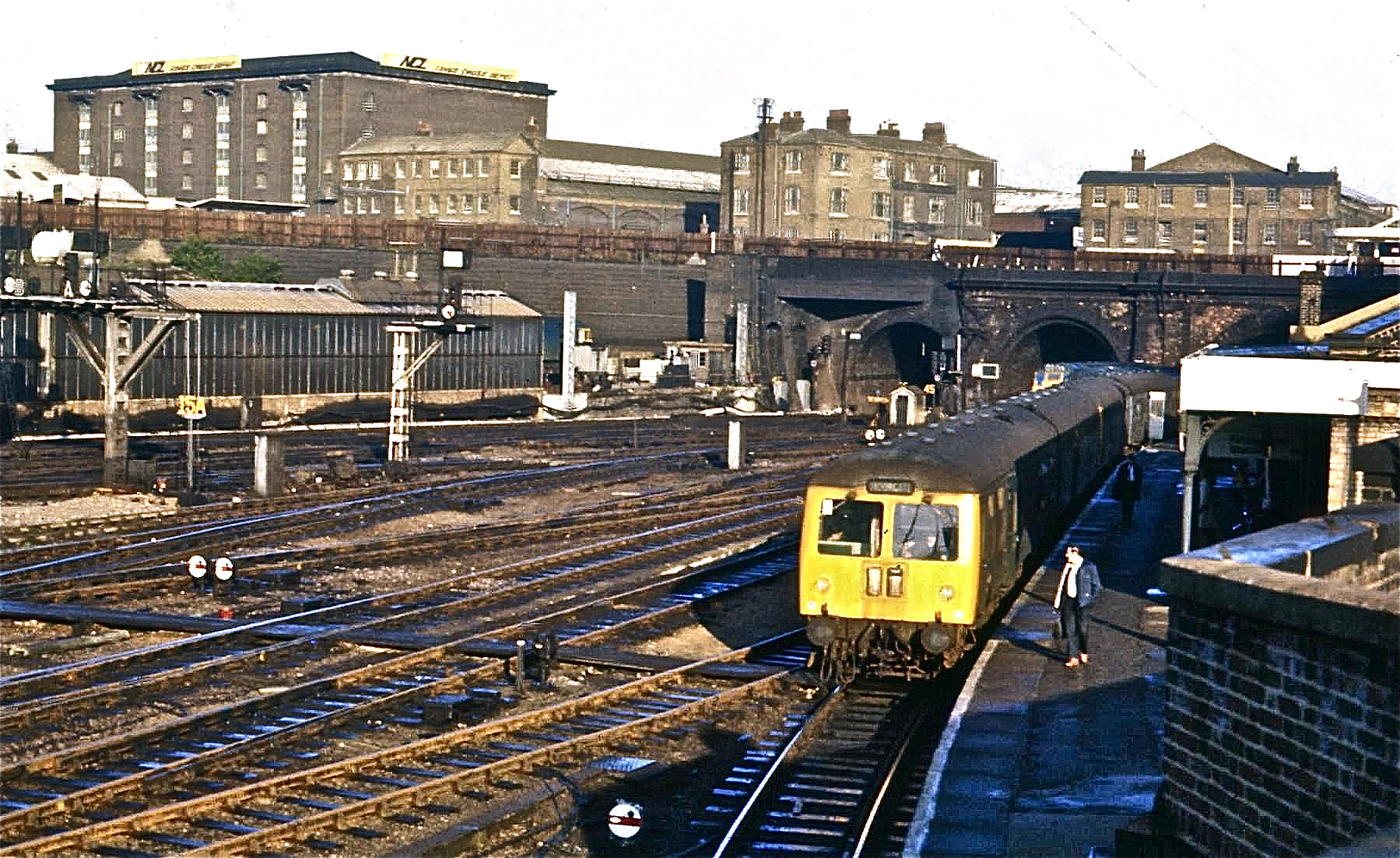 Class 105 at Kings Cross, York Rd stationon 31 October 1976, the last day of diesel services to Moorgate